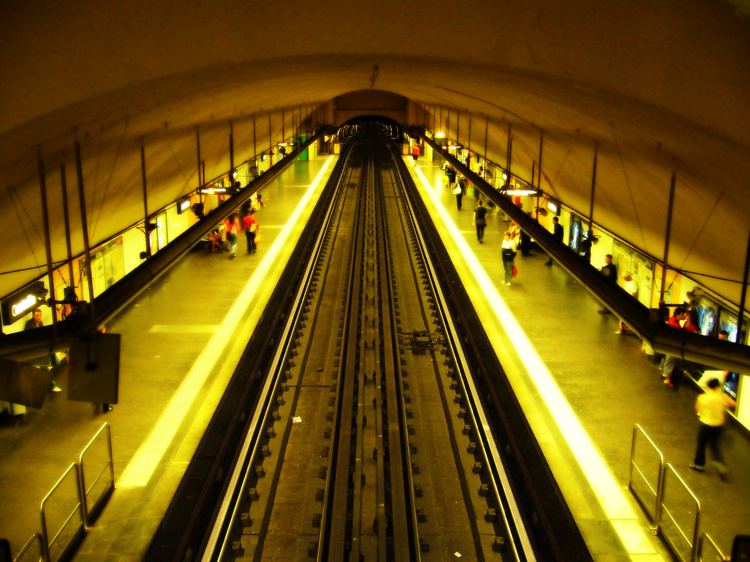 Metro station Castellane (Line 2), Marseille.